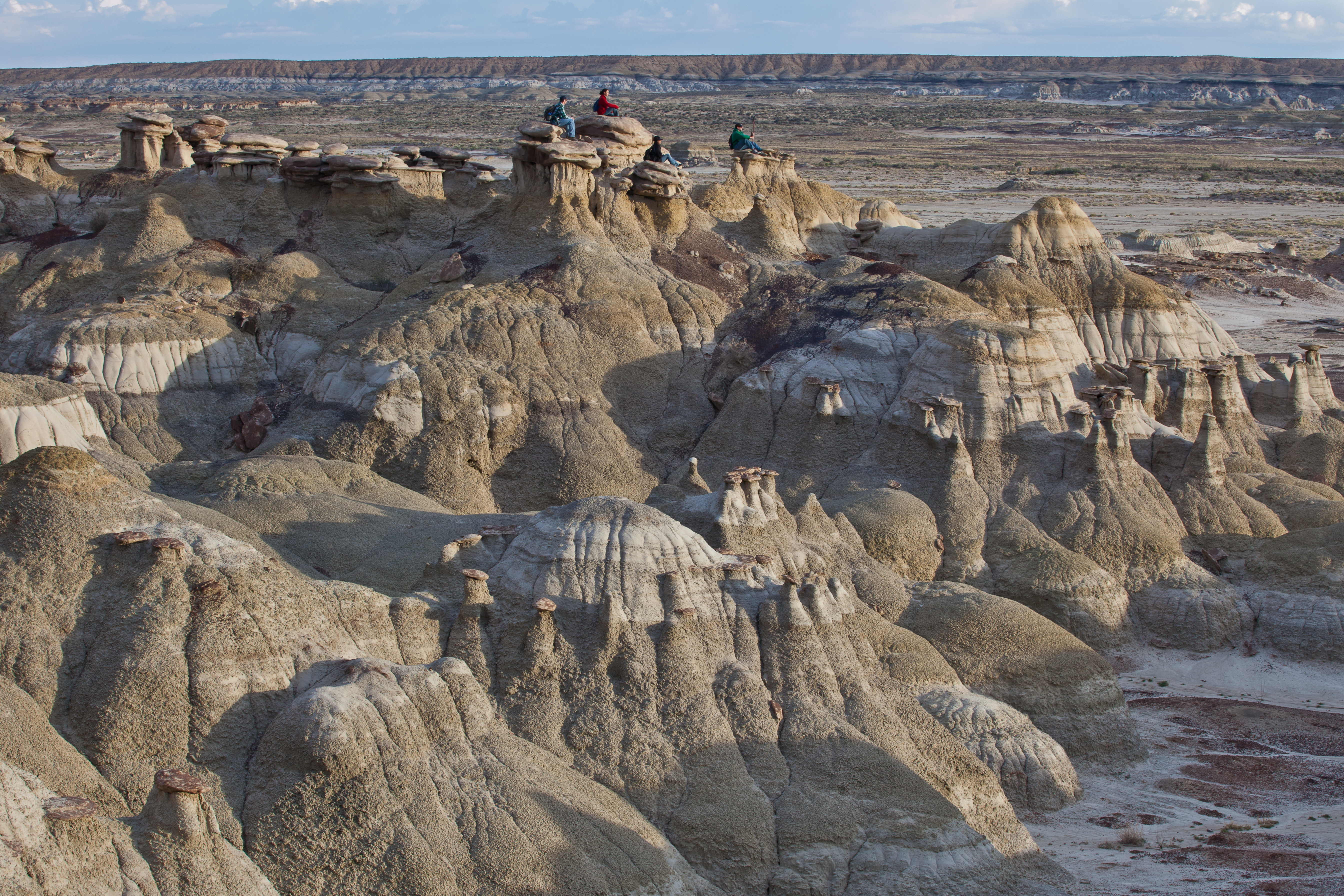 The Ah-shi-sle-pah Wilderness Study Area is located in northwestern New Mexico and is a badland area of rolling water-carved clay hills. The area is rich in fossils and has little vegetation to conceal geological formations. The thin vegetation includes sagebrush, piñon-juniper, Great Basin scrubland, and grassland. It is a landscape of sandstone cap rocks and scenic olive-colored hills. Water in this area is scarce and there are no trails; however, the area is scenic and contains soft colors rarely seen elsewhere. Learn more: Photo: Bob Wick, BLM California